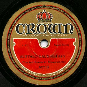 Crown Records 78rpm disc label